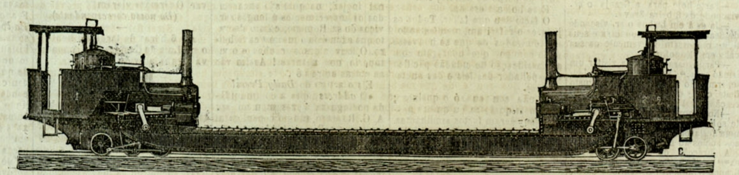 Drawing of a articulated locomotive, built by the Société Suisse pour la Construction de Locomotives et de Machines, of Winterthur, Switzerland, for the Caminho de Ferro Americano entre a Regoa e Villa Real (Regua to Villa Real Tramway). This locomotive never entered on service due to the closure of the railway, that would be replaced in 1906 by the Corgo Line. This image was published on the Diario Illustrado newspaper No. 1677, of 17th October 1877, and scanned by the Biblioteca Nacional de Portugal.